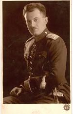 Bohac Viktor lieutenant